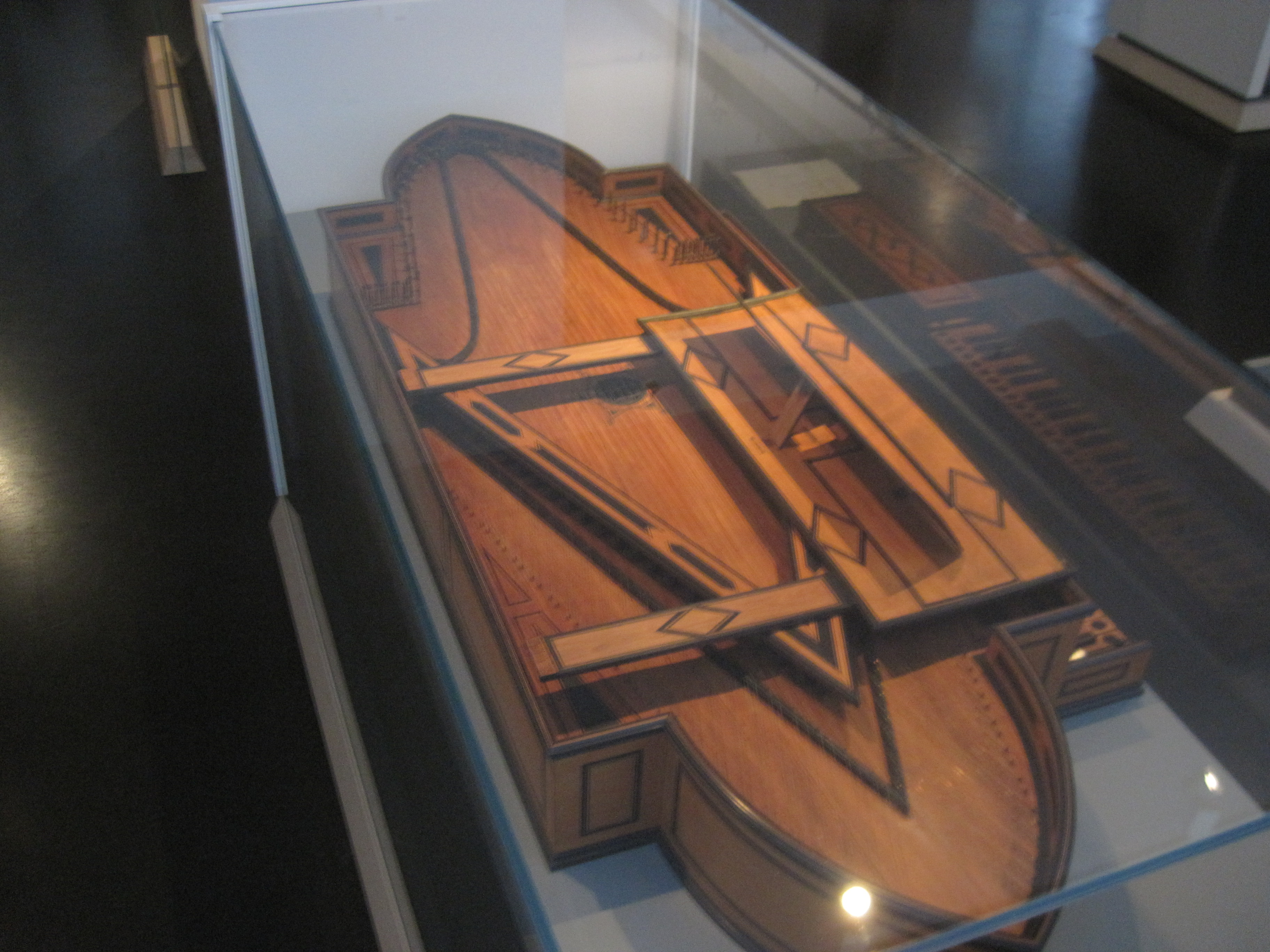 The 1693 oval spinet by Bartolomeo Cristofori, in the collections of the Musical Instrument Museum in Leipzig, Germany